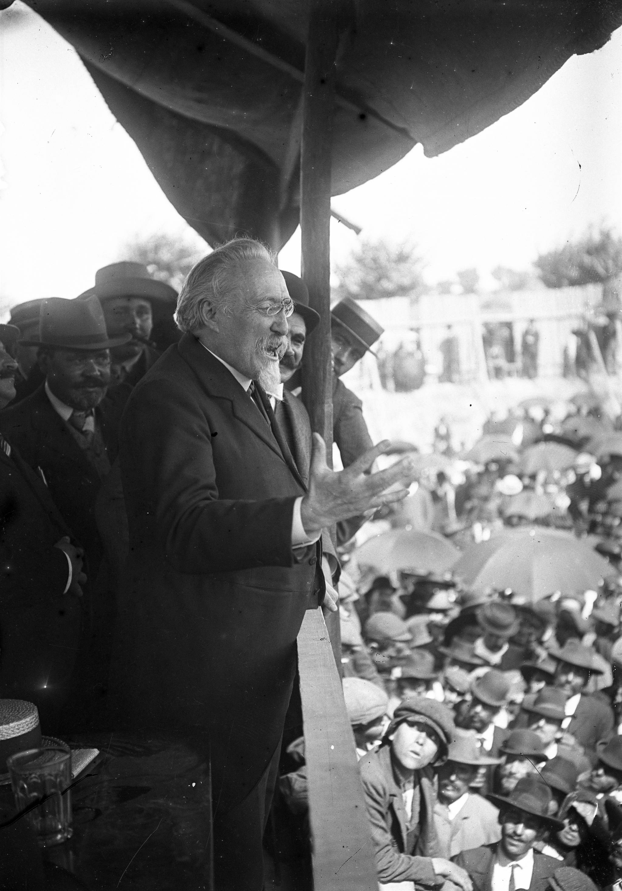 Manuel de Arriaga making a speech at a Republican rally.